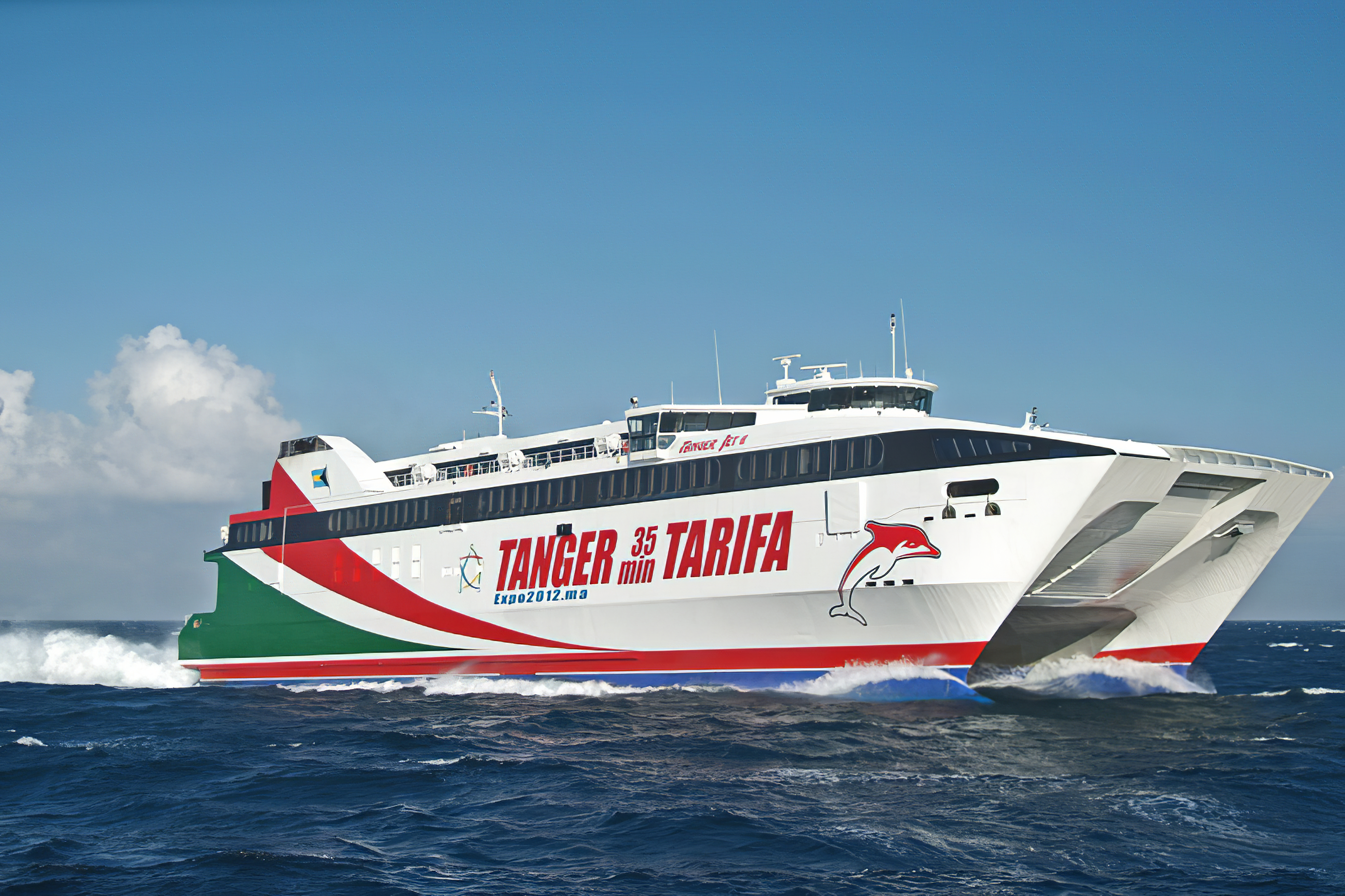 87m High Speed Craft, 900 passenger + 238 cars, max. speed 45 knots